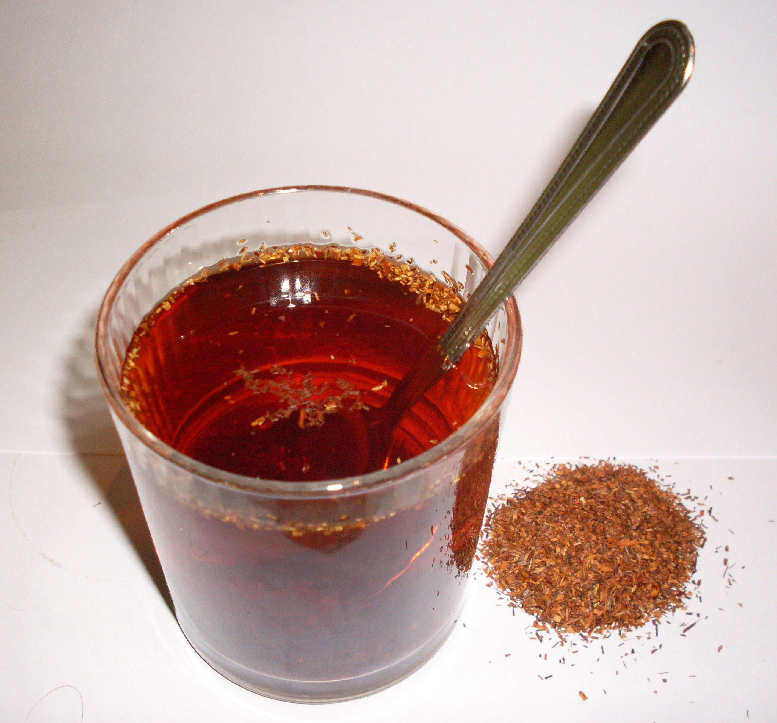 Rooibos tea in a glass with dry rooibos leaves